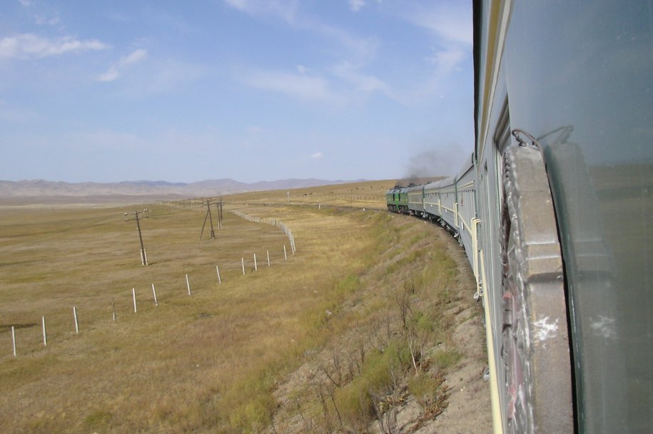 China railway train number K3 on trans-Siberian railway inside Mongolia